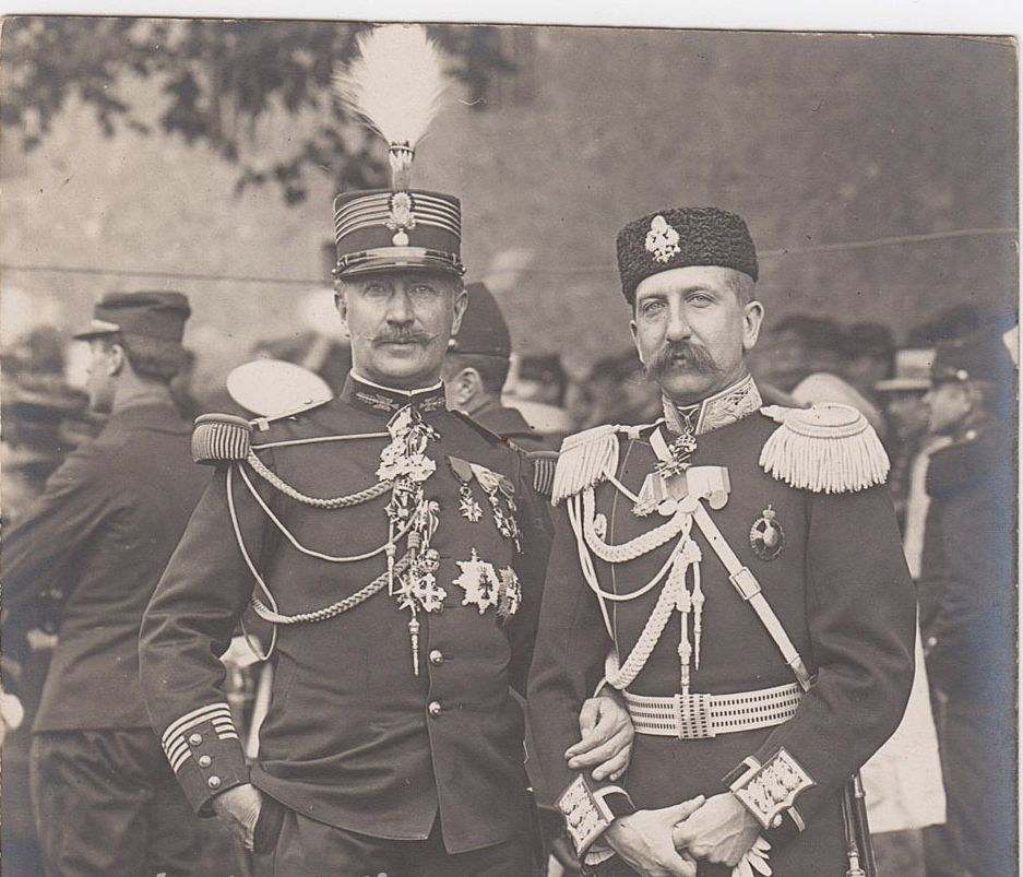 Russian Royal Guard General Grigory Nostitz (1862—1926) (right)